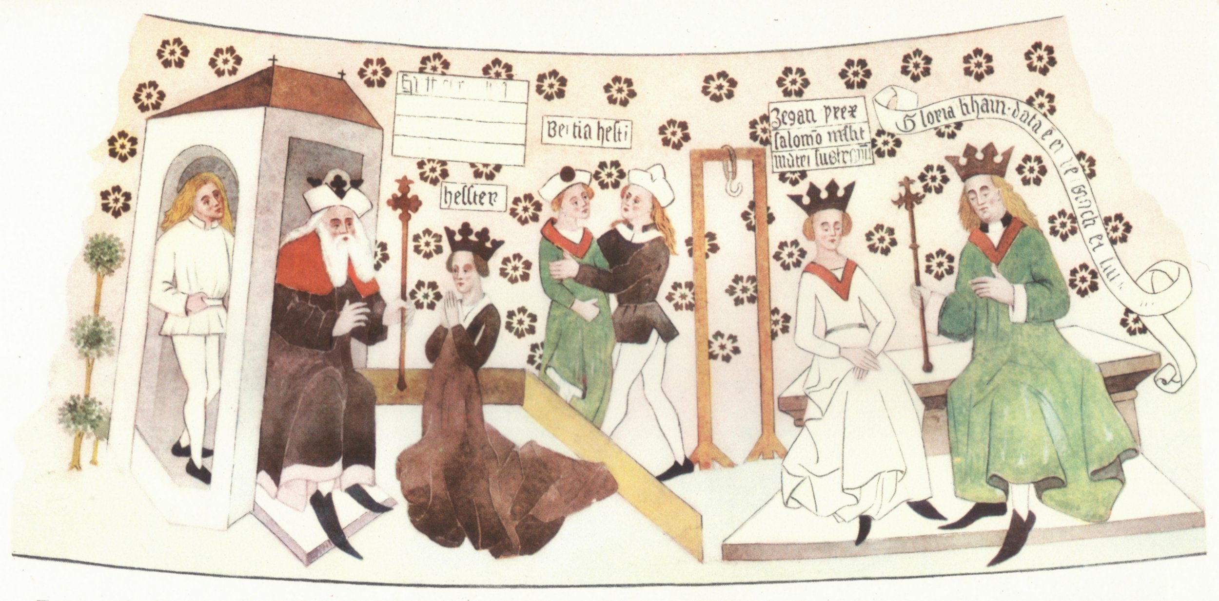 Esther and king Ahasuerus in the Old Testament. From the church paintings in Vänge church, Uppland, Sweden. The church walls are believed to have been painted either by Albertus Pictor or his disciples. This particular painting shows the story of the Book of Esther in the Old Testament. The bearded man holding a sceptre to the left is king Ahasuerus and kneeling in front of his is Esther herself. The two people in the middle is Esther and the villain, Haman, who will soon be hanged from the gallows. The two people to the right is from a different Old Testament story, Solomon and Bathsheba.